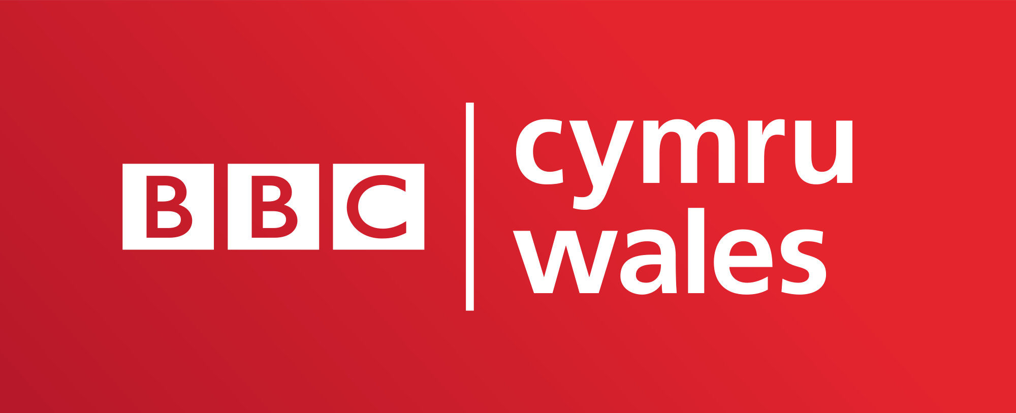 The logo of British Broadcasting Company's regional radio and television service BBC Cymru Wales, serving the country of Wales.